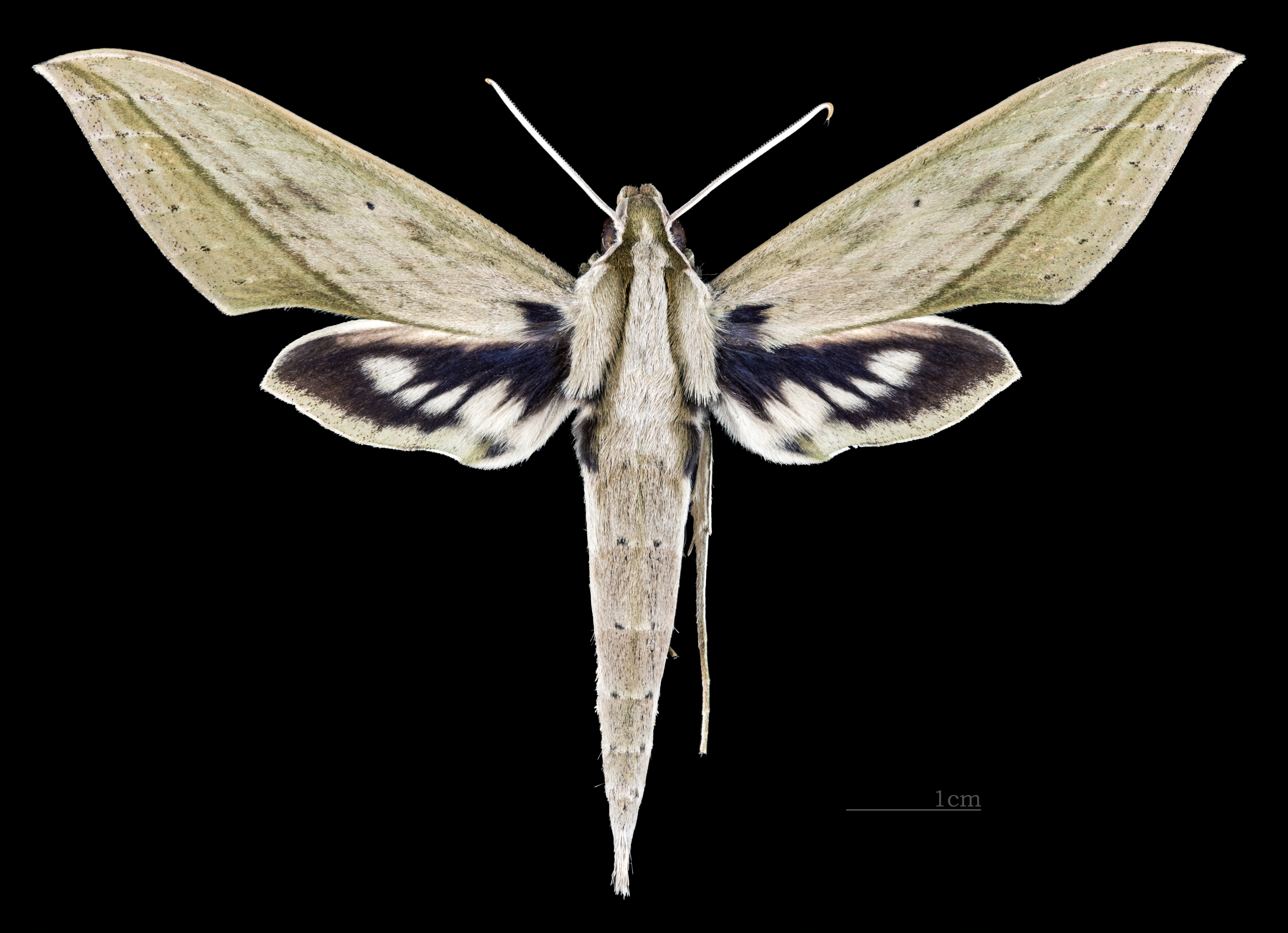 Xylophanes anubus - Dorsal side